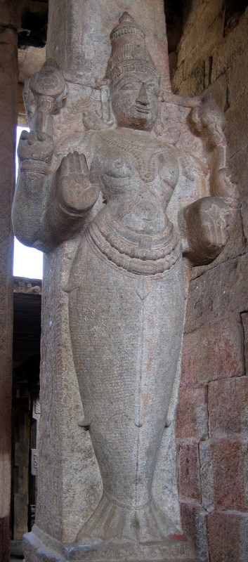 Matsya